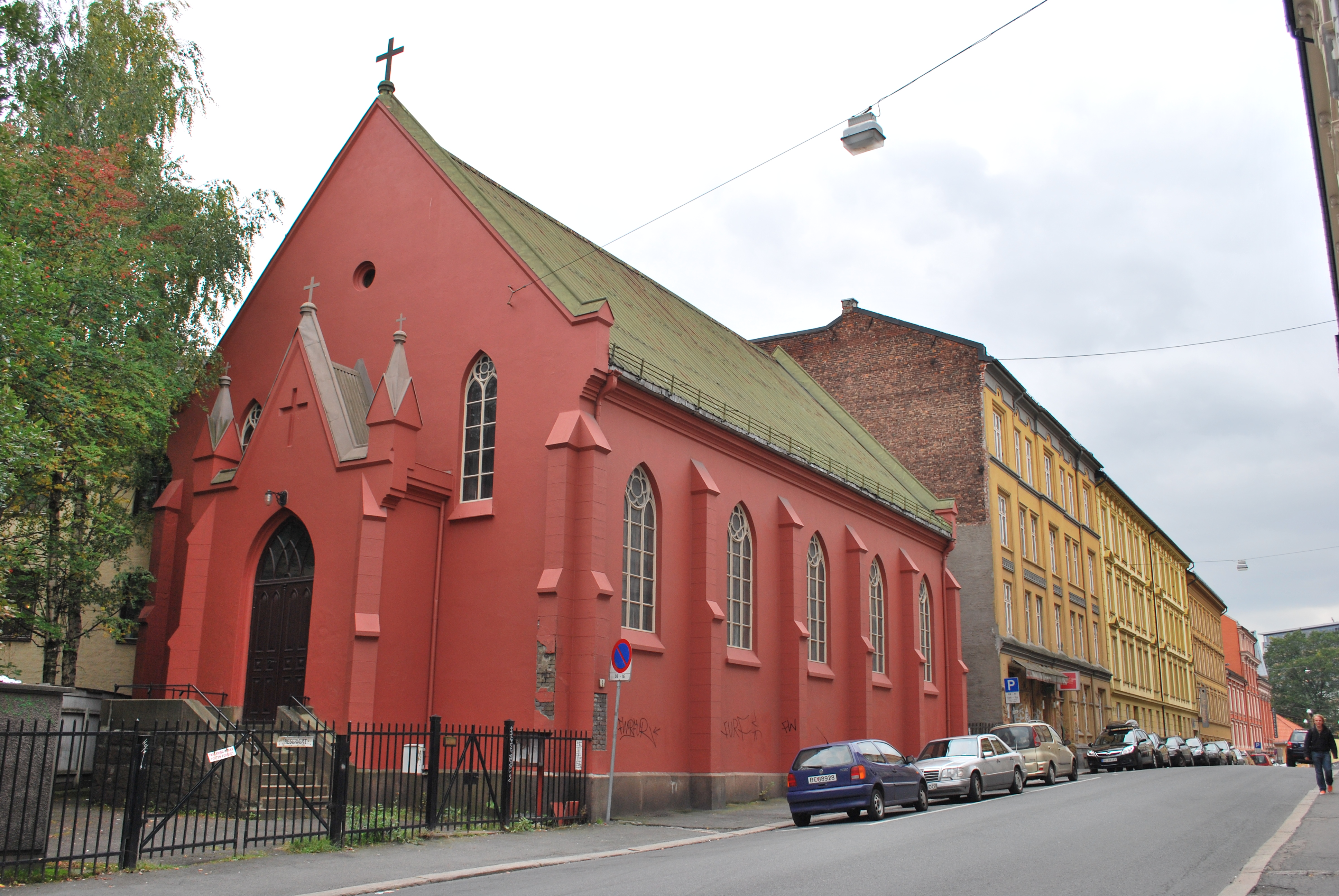 Maria Bebudelses kirke, Thor Olsens gate, Hammersborg, Oslo